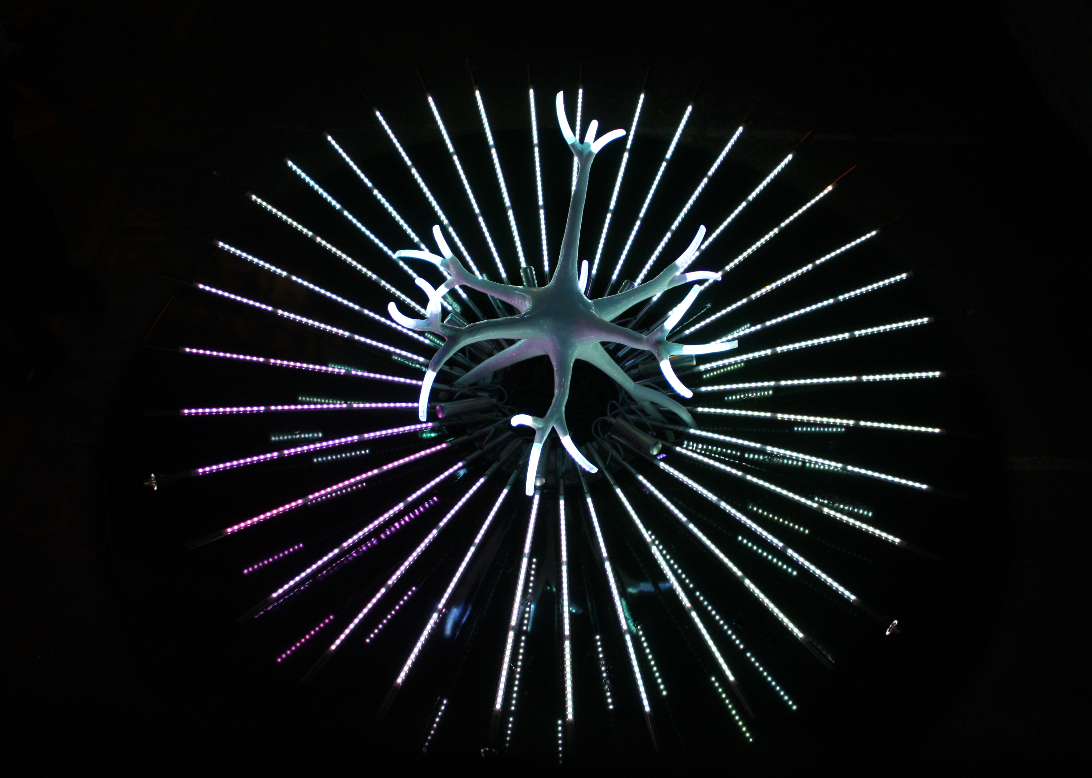 Interactive light installation, 4,5 meter, Kinetica London 2012